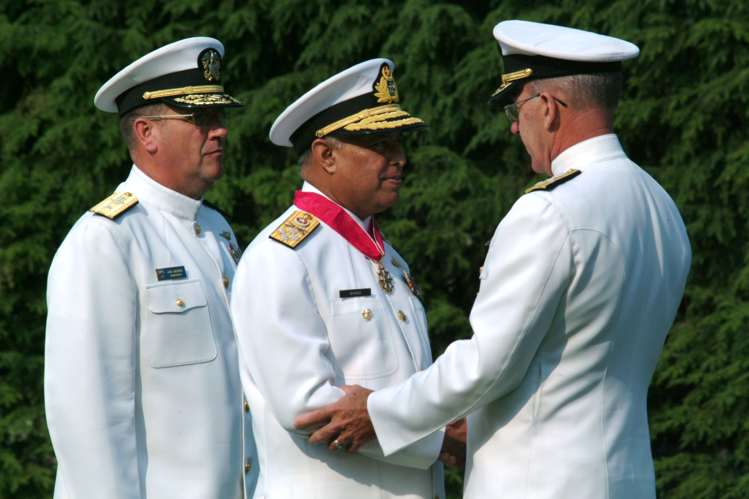 Washington, D.C. (July 21, 2004) - Adm. Shahid Karimullah, Chief of Naval Staff, Pakistan Navy is presented the Legion of Merit from Adm. Vern Clark, Chief of Naval Operations (CNO), for his steadfast support of American-Pakistan cooperation in regional maritime and security affairs, and demonstrated superb resolve and unwavering dedication to the Global War on terrorism. Adm. Karimullah was given a full honors welcome ceremony at Luetze Park, Washington Navy Yard on behalf of his official visit to the United States. U.S. Navy photo by Chief Photographer's Mate Johnny Bivera. (RELEASED)